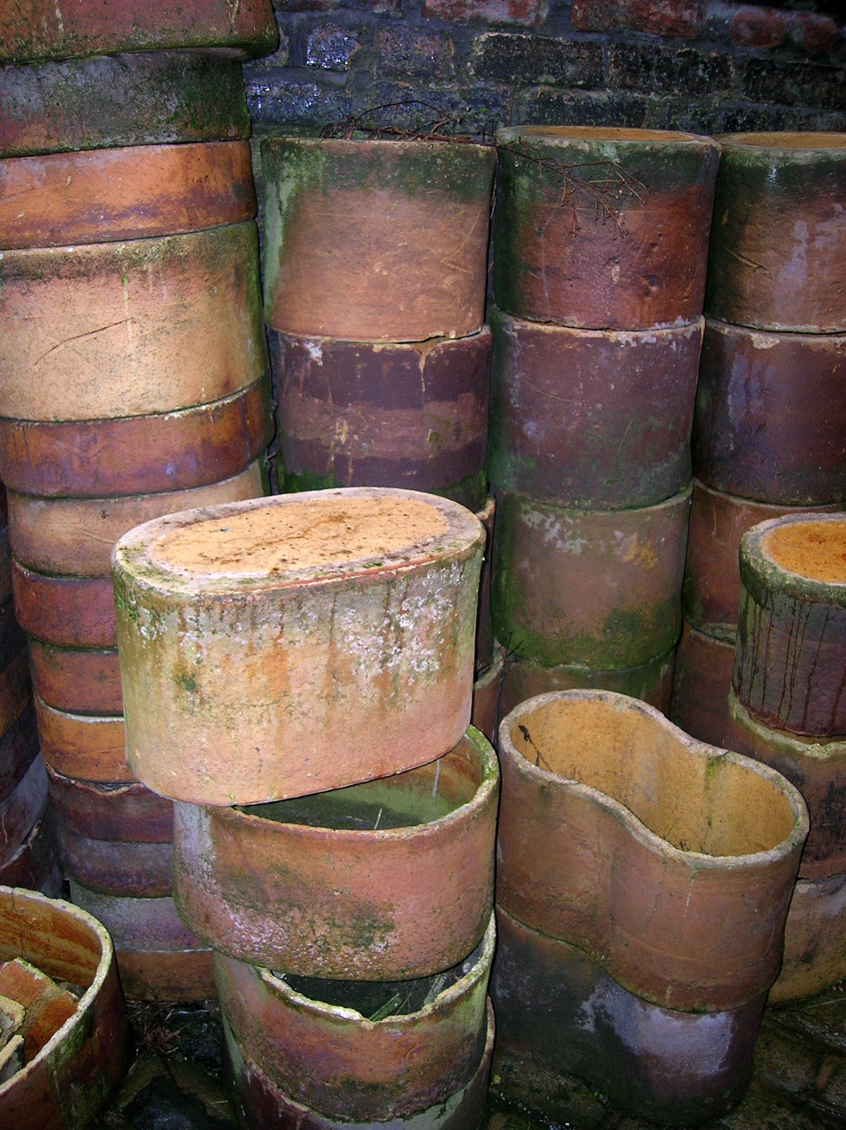 A stack of saggars at the Gladstone Pottery Museum, Stoke-on-Trent, UK